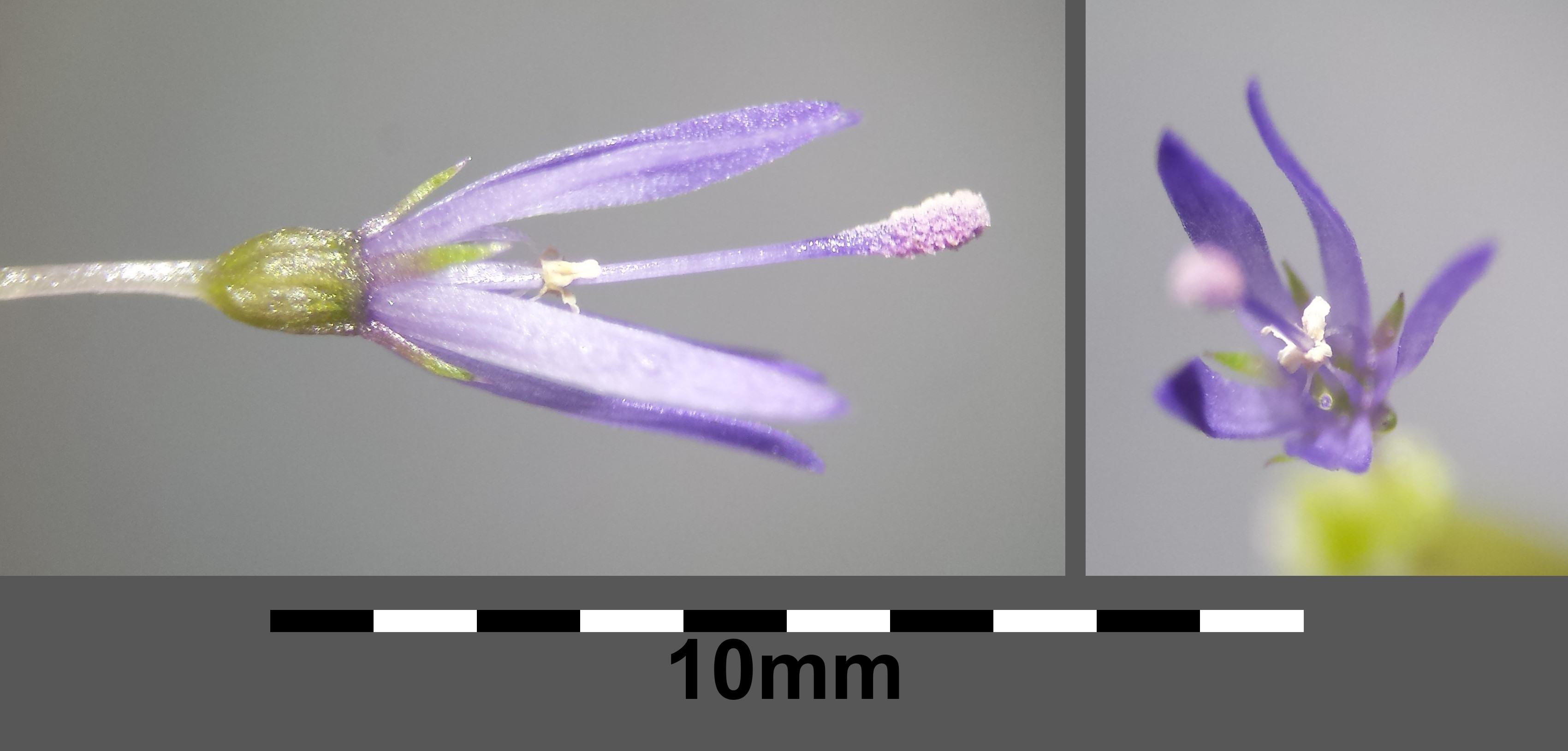 Flower Taxonym: Jasione montana ss Fischer et al. EfÖLS 2008 ISBN 978-3-85474-187-9 Location: next to Griesbach, Groß-Gerungs, district Zwettl, Lower Austria - ca. 800 m a.s.l. Habitat: wayside/slope